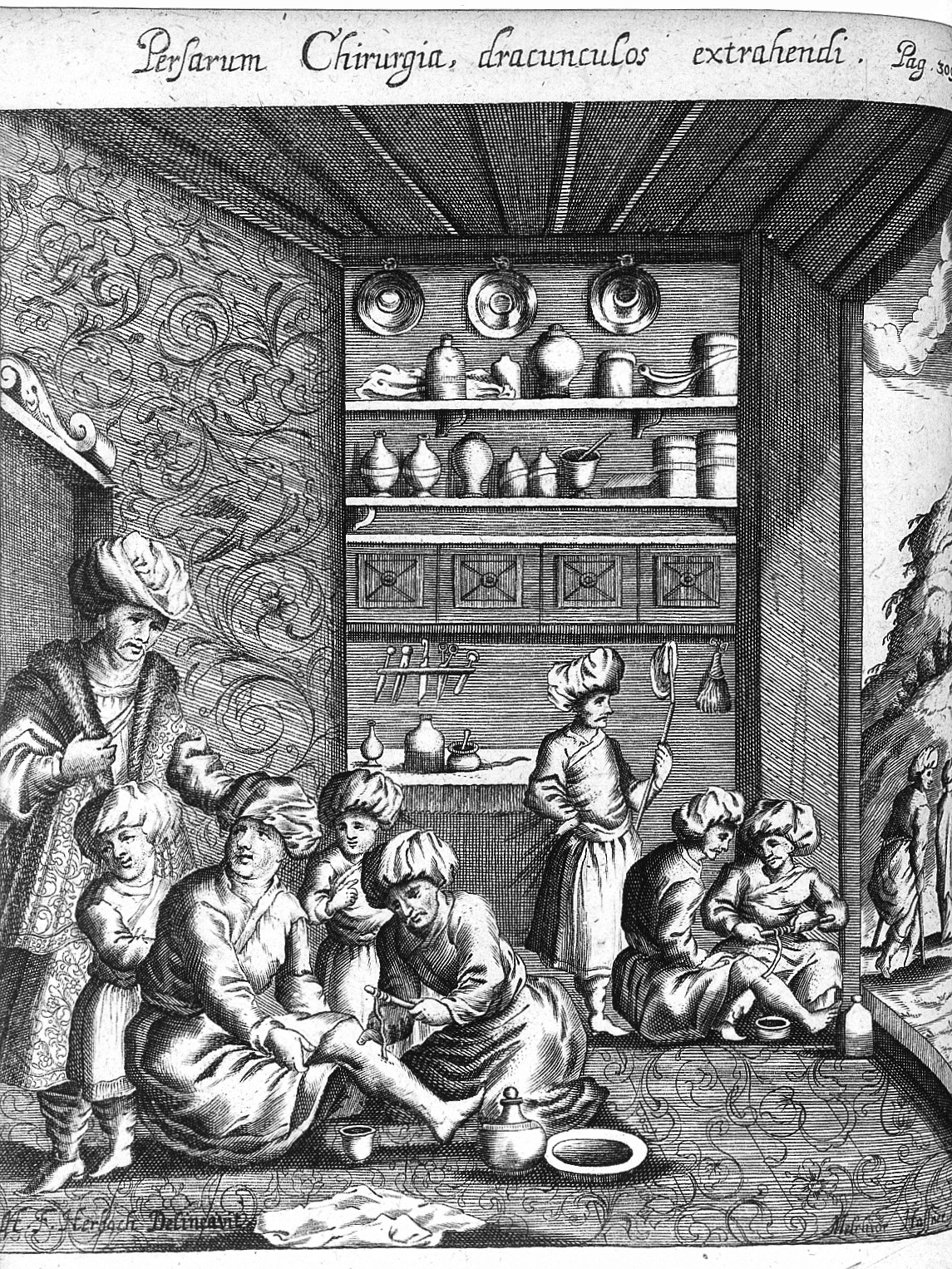 Surgeons removing guinea-worms. Wellcome Images